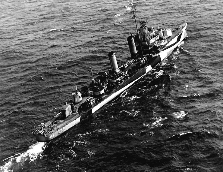 The U.S. Navy destroyer USS Endicott (DD-495) circa late 1944, while painted in camouflage Measure 32, Design 3D.